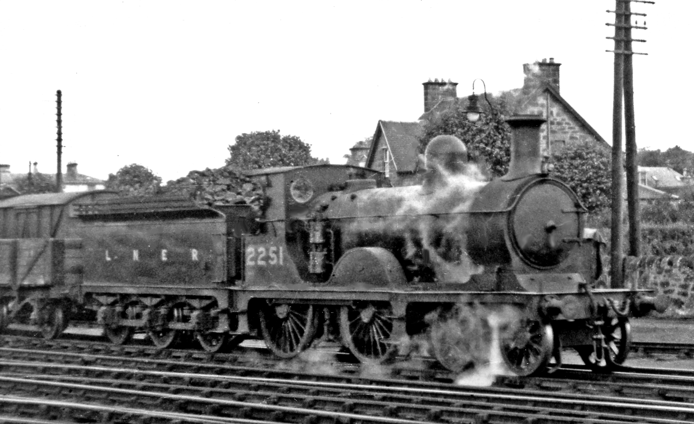 Ex-GNofS 4-4-0 at Elgin. Seen from the ex-Great North of Scotland Elgin station, where the lines from Aberdeen via Huntley and via the Buchan Coast, also the branch from Lossiemouth, combine and connect with the ex-Highland line from Keith to Inverness, a GNSR 4-4-0 is engaged in shunting - but then the GNoSR had virtaully no other types than 4-4-0s, for all duties. This is Johnson/Pickersgill 4-4-0 (LNER class D41) No. 2251 (No. 6907 until 1946), built 2/1898 and withdrawn as No. 62251 in 11/51; here still in LNER livery.